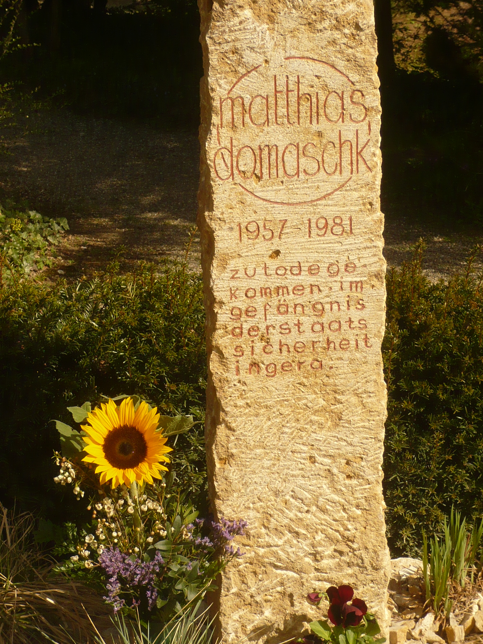 Honorary grave for the victim of GDR-security police, Matthias Domaschk, in Jena/Germany 2011